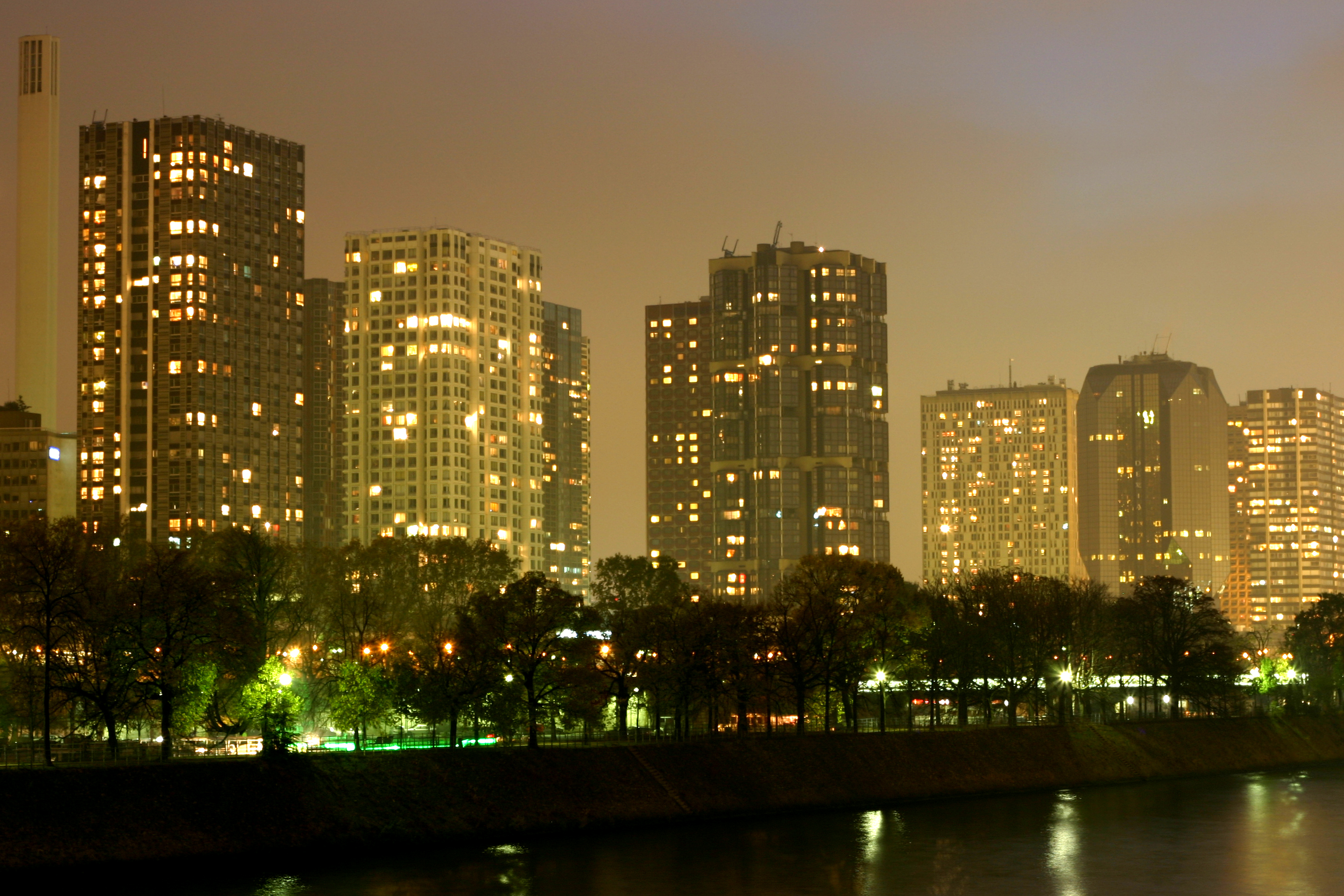 Quartier de Grenelle buildings (15th district Paris, France) by night